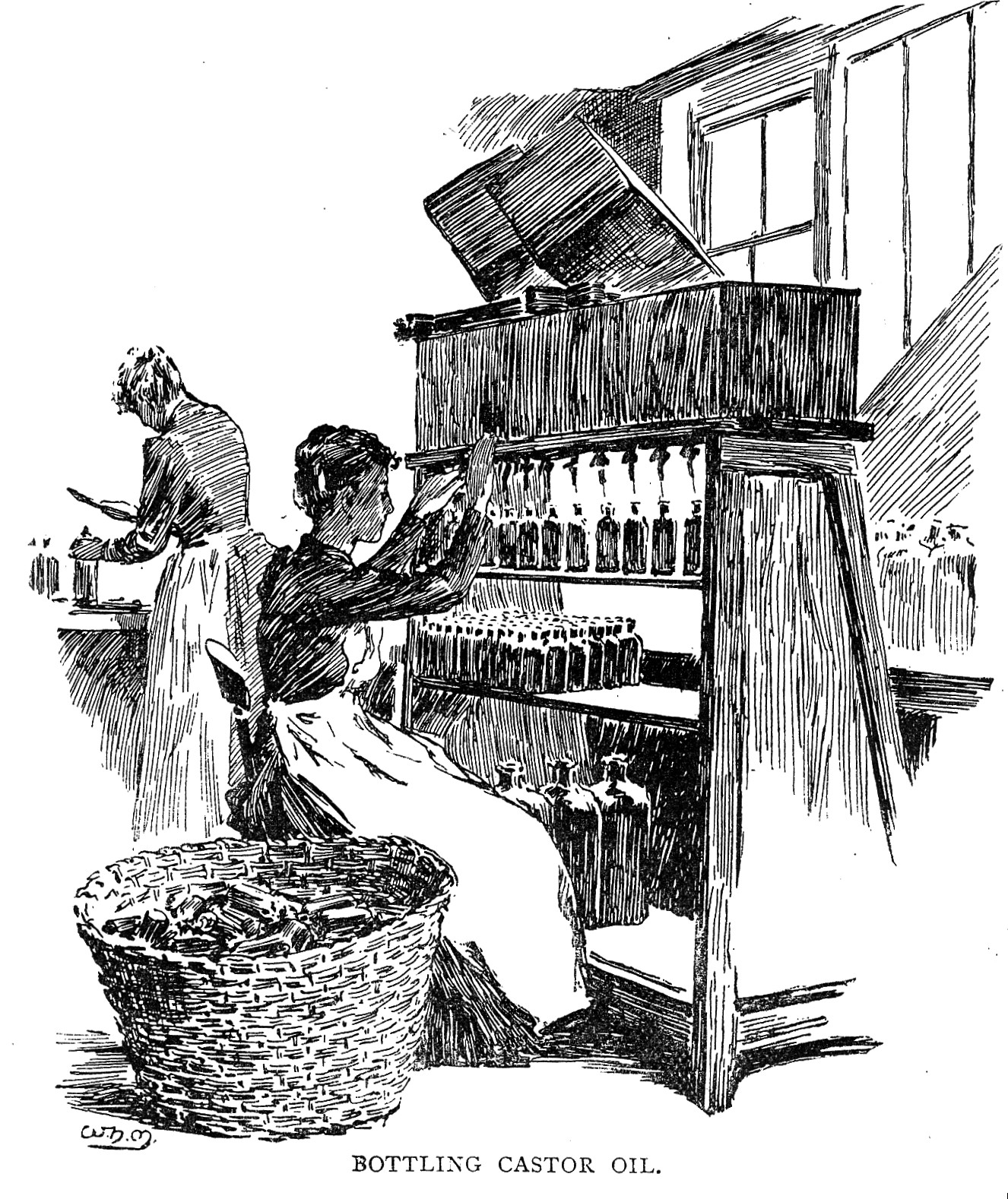 Bottling castor oil. Shops: Allen & Hansburys. Wellcome Images Keywords: Materia Medica; Pharmacy